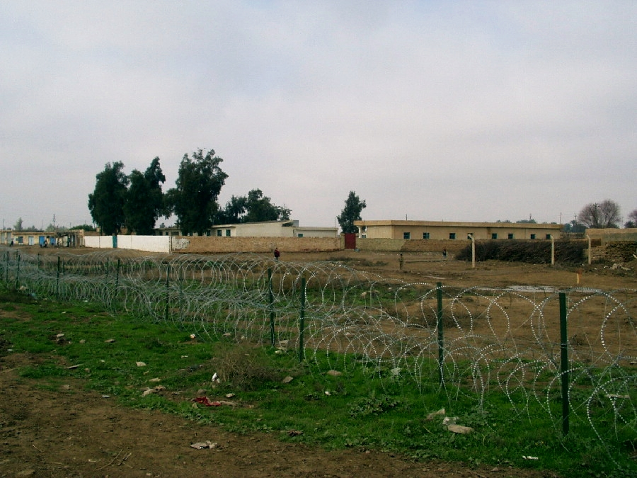 Photograph of Abu Hishma village and residents by the Christian Peacemaker Teams, licensed under CC-BY-SA 3.0